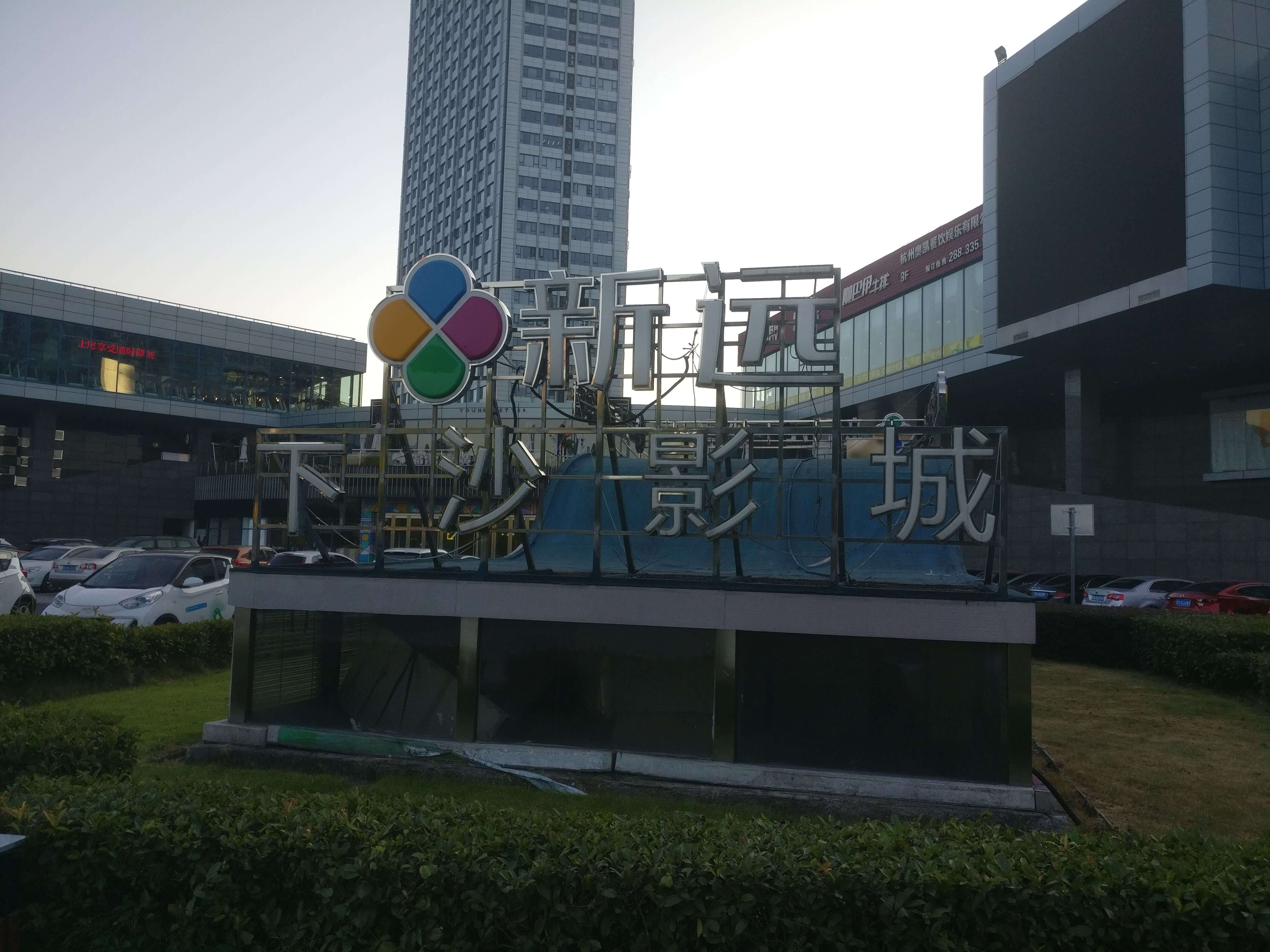 Xinyuan cinema in Xiasha. 中文（中国大陆）: 位于福雷德广场的新远下沙影城。